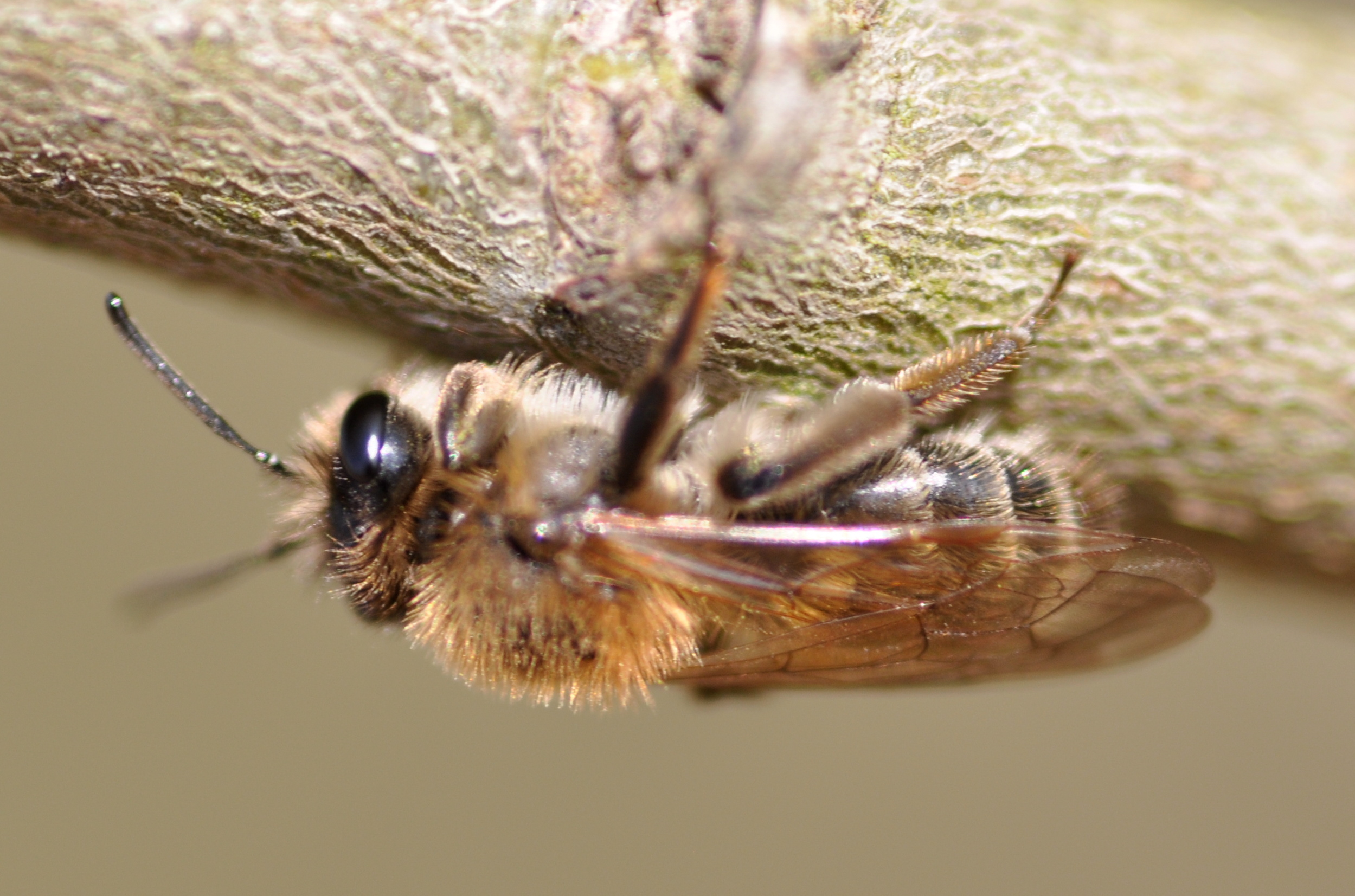 Andrena praecox female in Kirchwerder, Hamburg.